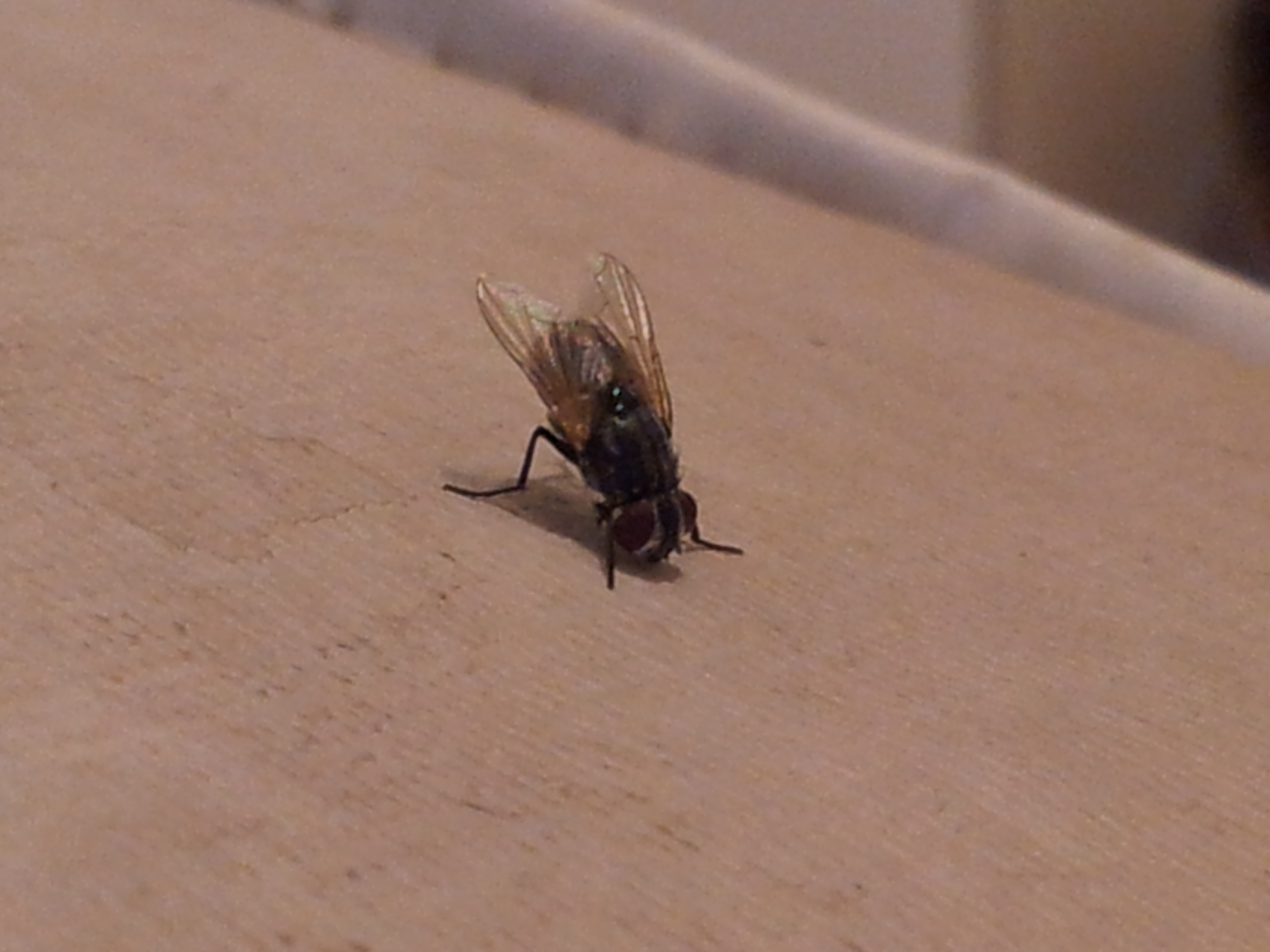 a close up of a fly in São Paulo. Shot by Edinaldo E. Santo using a Samsung Galaxy S II in January 2013